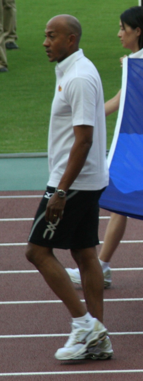 World Athletics Championships 2007 in Osaka - The IAAF flag carried by (in foreground) Frankie Fredericks, Rosa Mota, Heike Drechsler